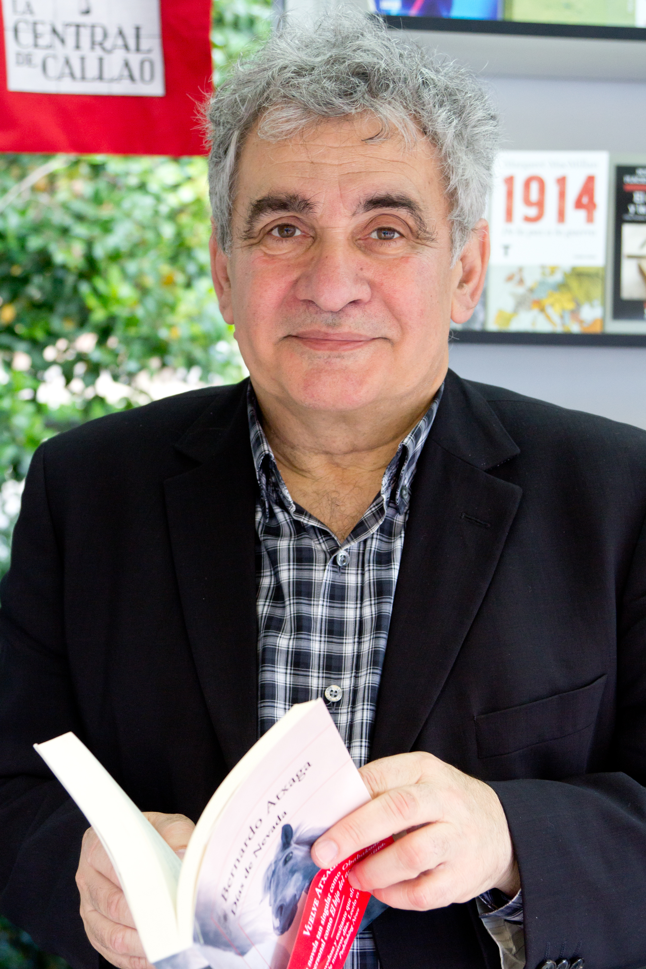 Spanish writer Bernardo Atxaga at the Madrid Book Fair 2014.